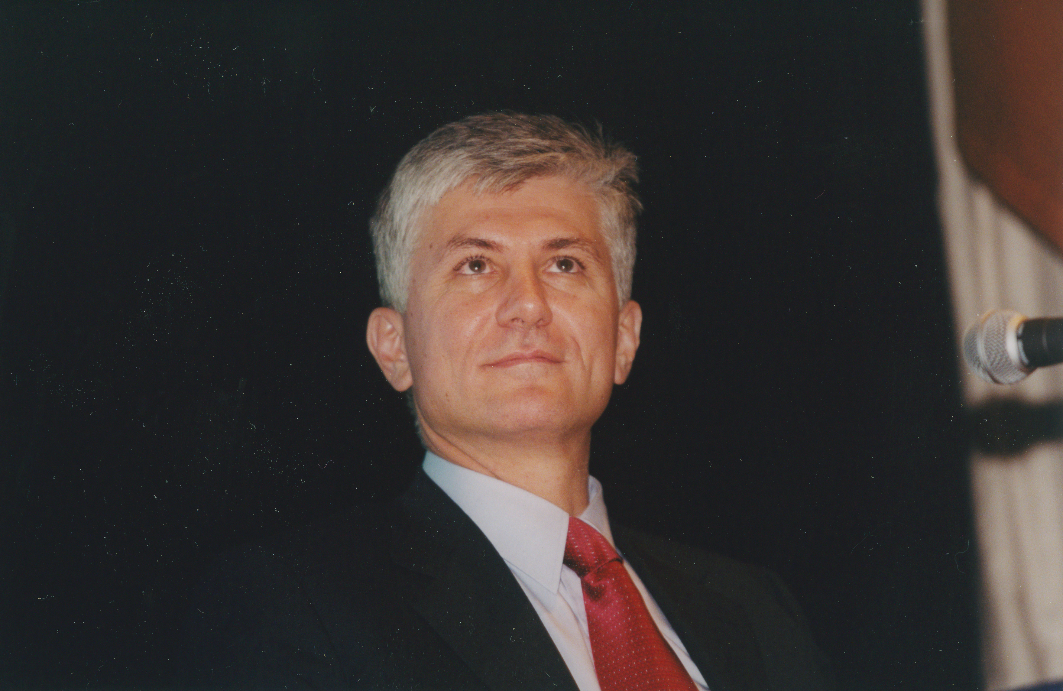 Serbian Prime Minister (assassinated in March 2003) giving guest lecture at LSE, "Serbia on the Path to Europe", 23rd April, 2002 IMAGELIBRARY/857 Persistent URL